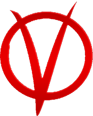 The V symbol from V for Vendetta.